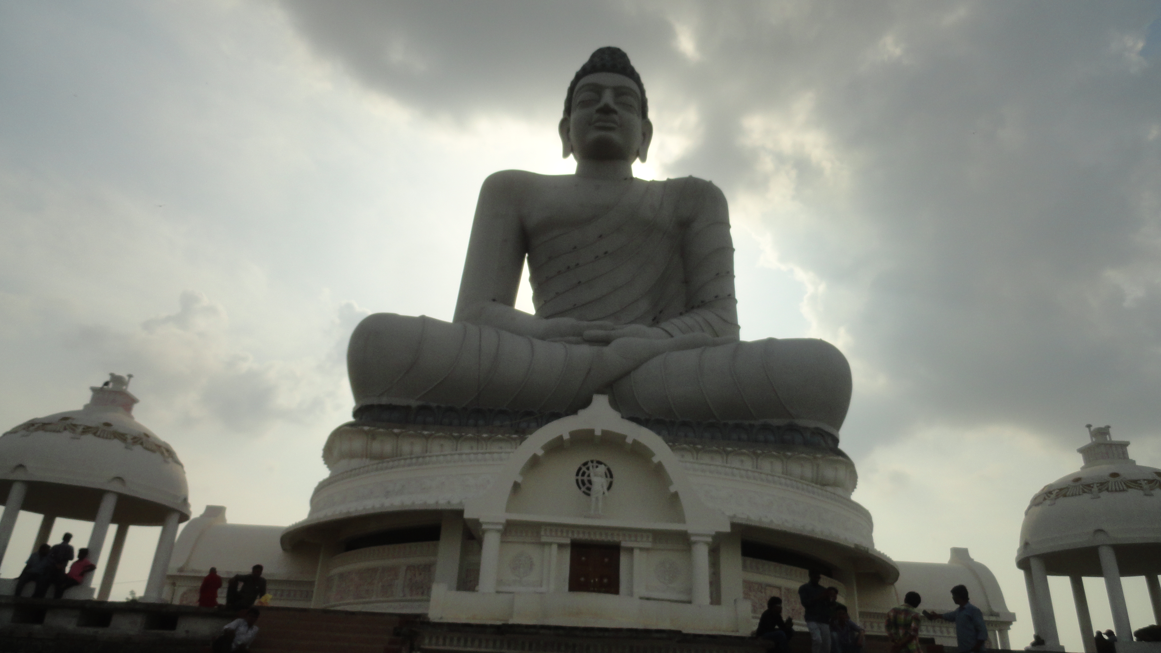 buddha statue at amaravati